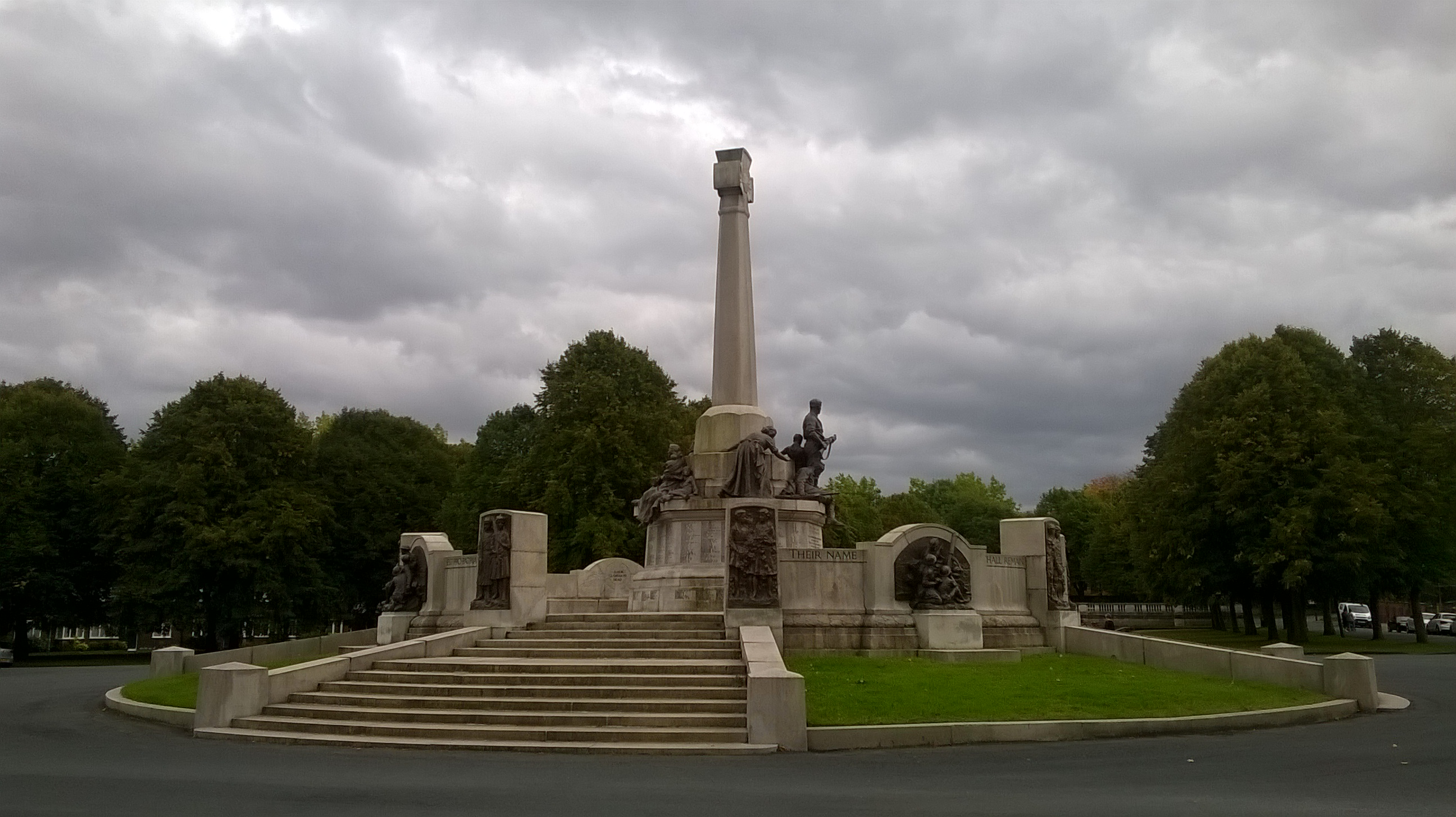 Port Sunlight War Memorial. Designed by Goscombe John, completed 1921. Grade I Listed Building (upgraded in 2014). Image taken after extensive conservation, cleaning and wax coating in 2010 and 2015.